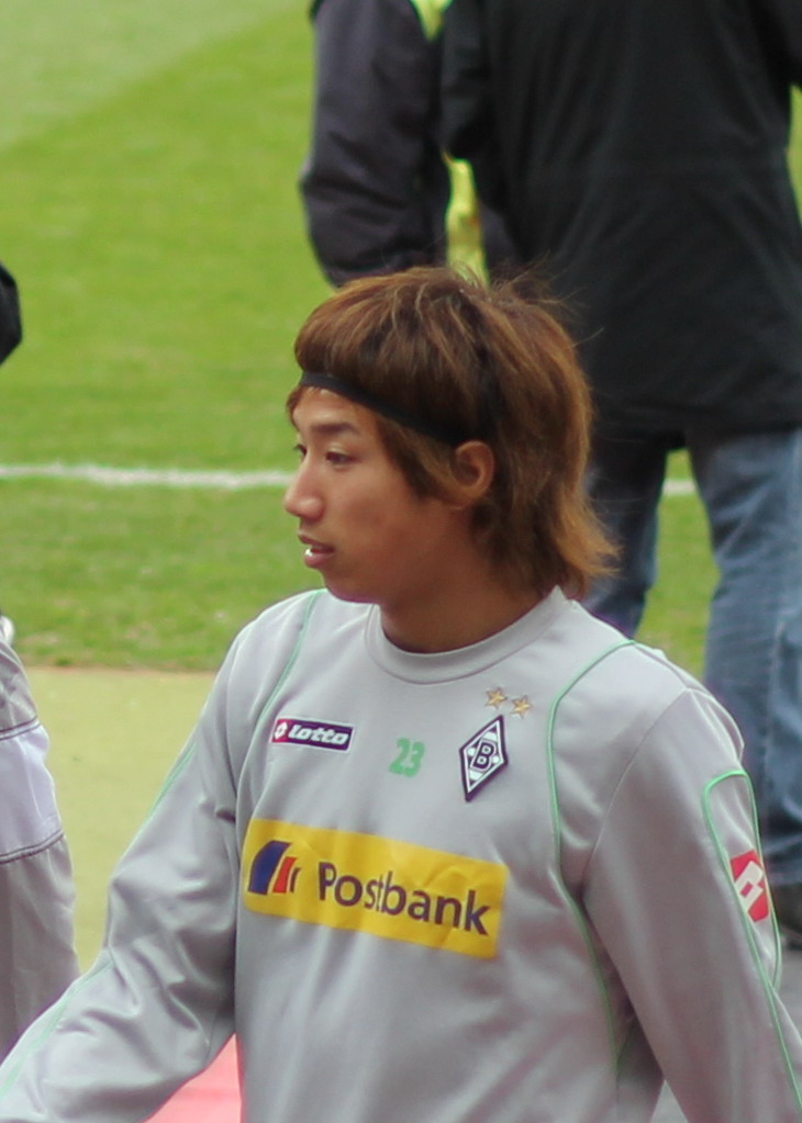 Yūki Ōtsu, Japanese football player for German side Borussia Mönchengladbach, 2011/12 season